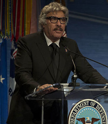 Mr. Tony Orlando makes remarks during the 2014 Secretary of Defense Freedom Award Ceremony at the Pentagon in Washington D.C., where he was the master of ceremonies Sept 26, 2014. (DoD Photo by Master Sgt. Adrian Cadiz)(Released)